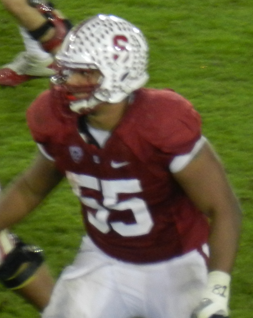 Andrew Luck passing against the Oregon Ducks, 2011